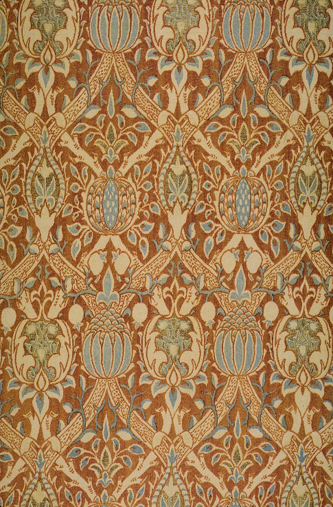 Granada woven silk velvet brocaded with gilt thread and blue areas block-printed, designed by William Morris. (Identification from Linda Parry: William Morris Textiles, New York, Viking Press, 1983, ISBN 0-670-77074-4)